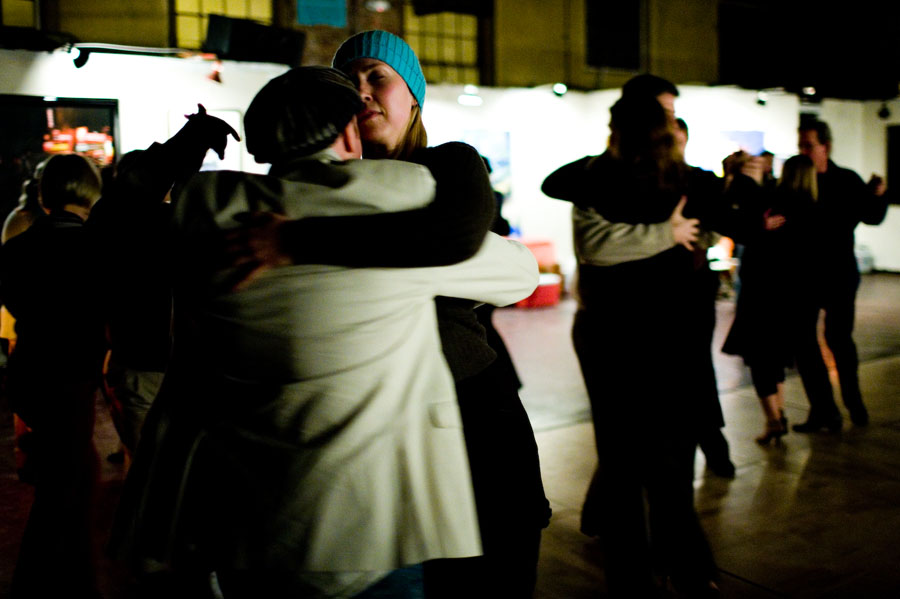 A milonga at the eastern market in Washington DC